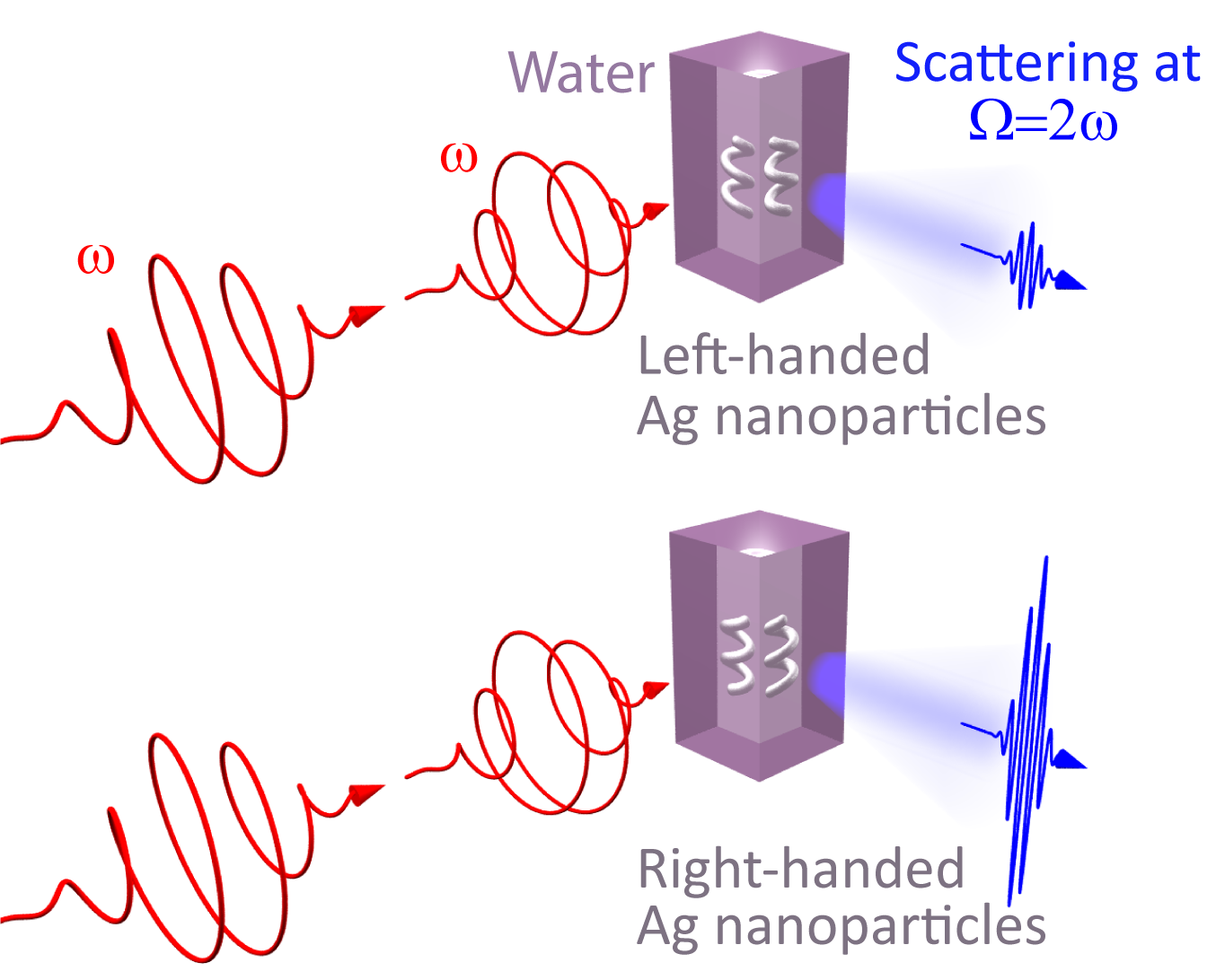 A diagram of the Hyper Rayleigh Scattering Optical Activity effect, whereby the intensity of light scattered at higher harmonics depends on the chirality of the scatterers.